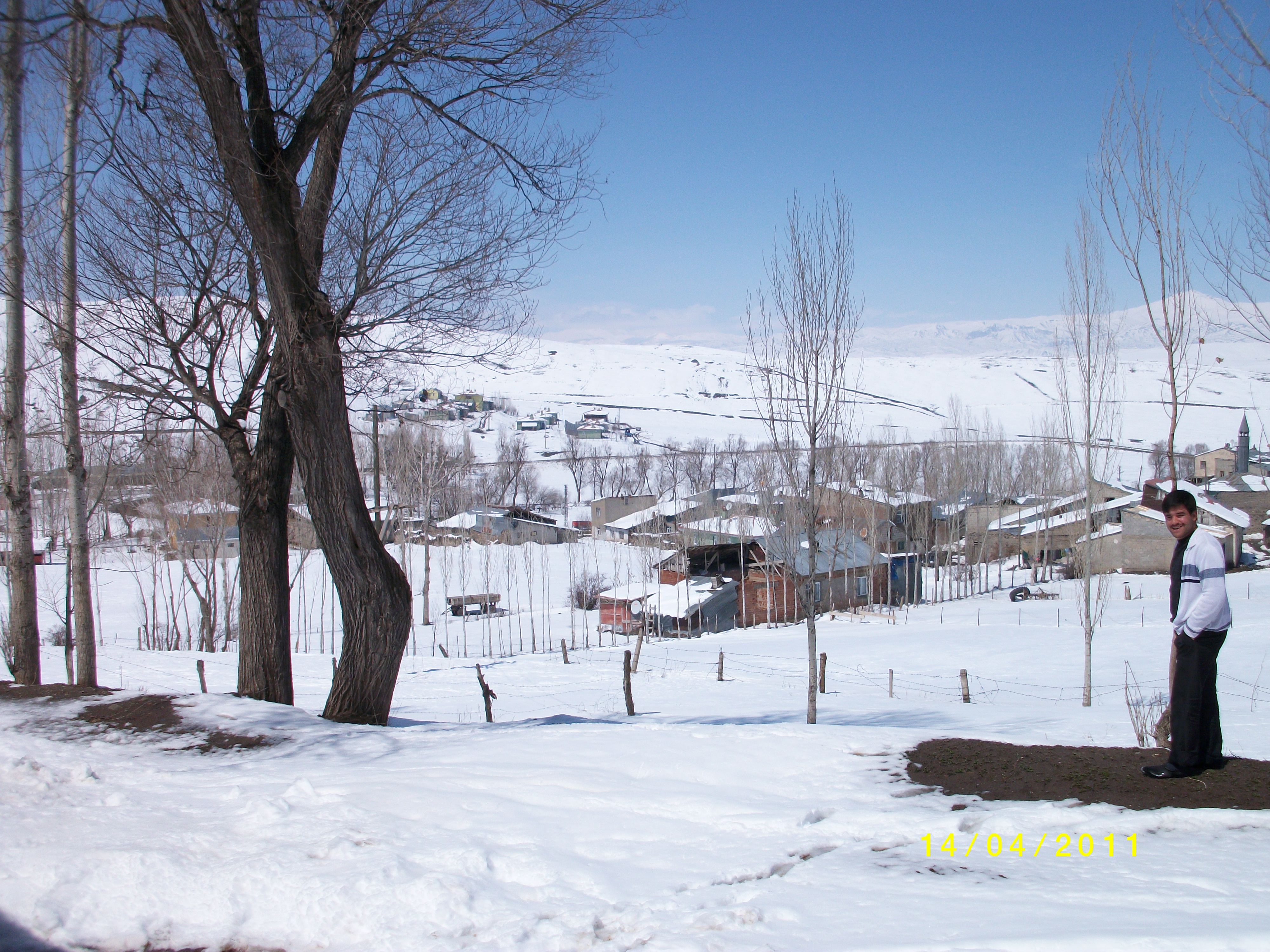 Mart 2011